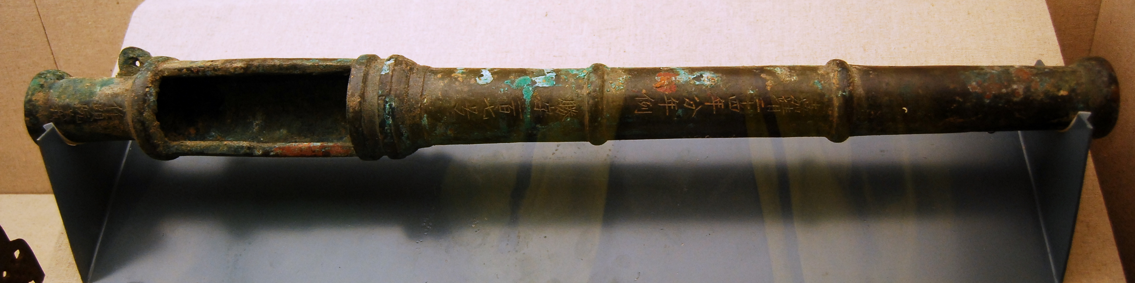 copper gun with reign mark of 24th year of Jiajing